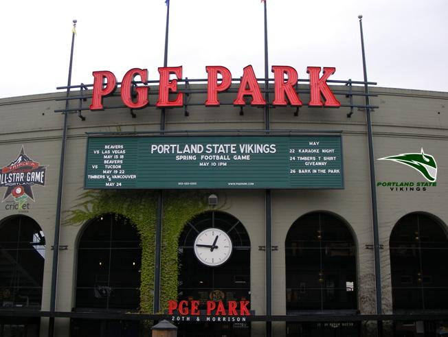 PGE Park - Home of the PSU Vikings